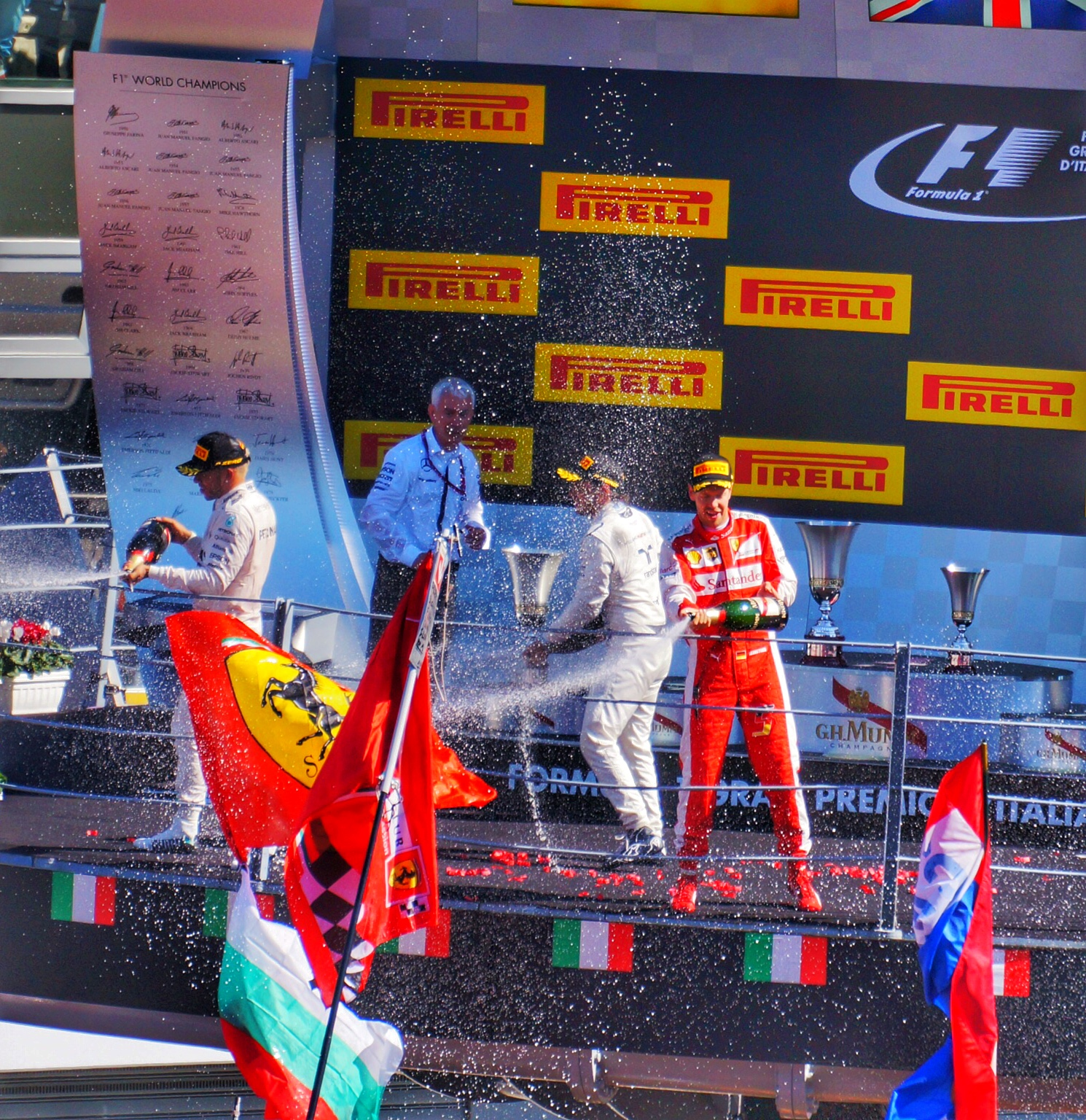 Podium celebrations at the 2015 Italian Grand Prix